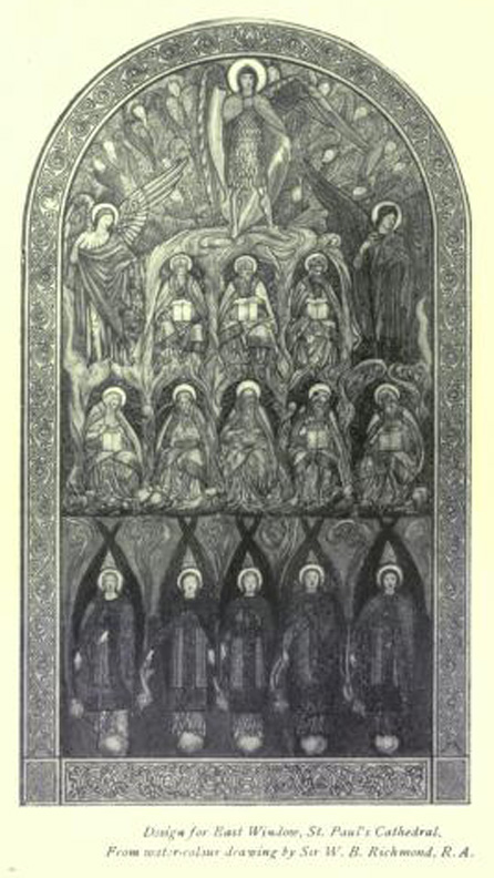 "Design for East Window, St. Paul's Cathedral."